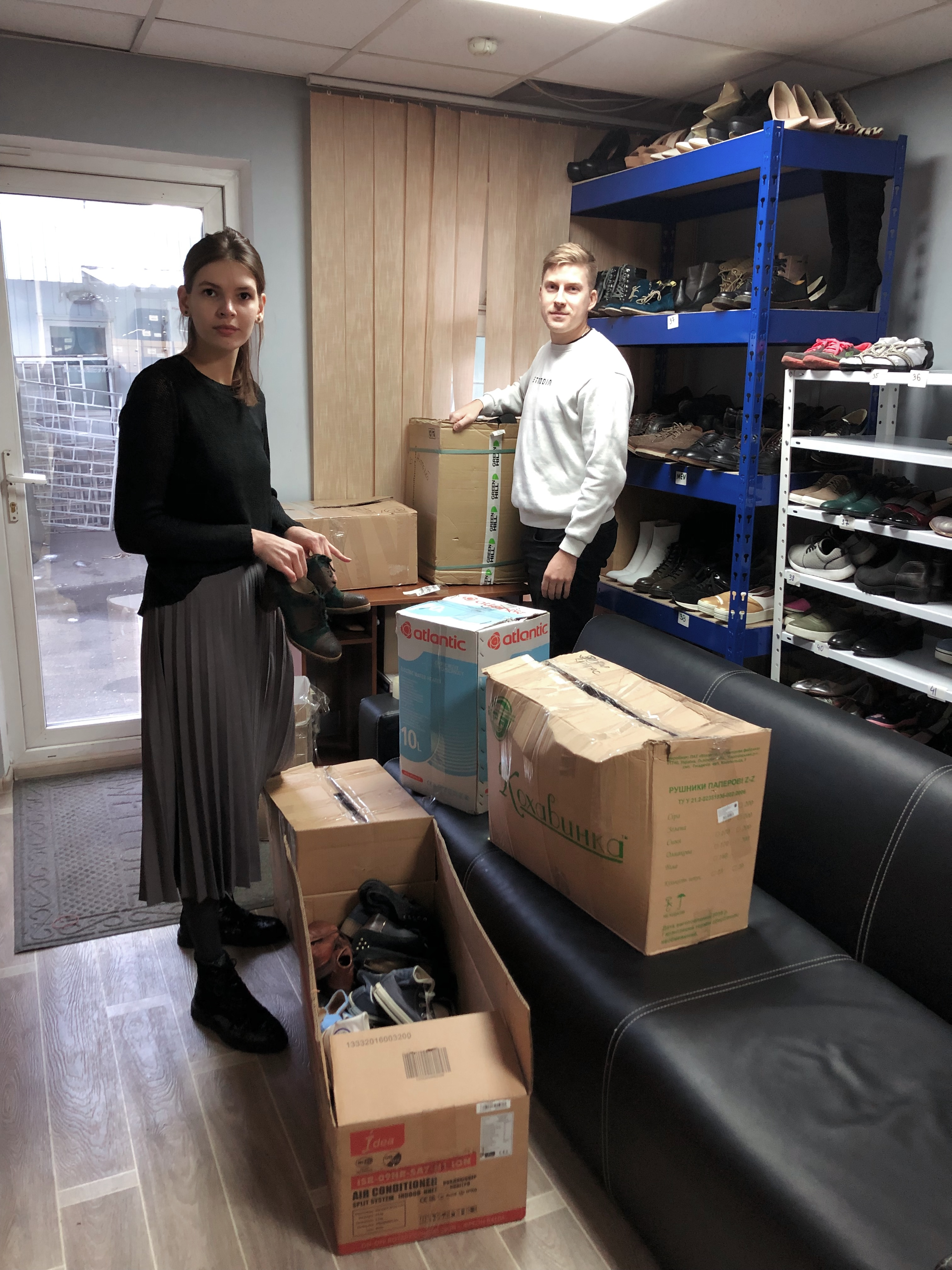 hilegs2018